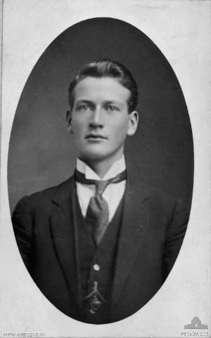 Studio portrait of Australian Army Captain Percy Herbert Cherry VC, MC, in civilian clothes. He was posthumously awarded the Victoria Cross in 1917.